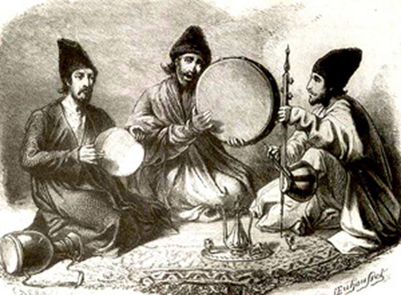 Kurdish Muzicians 1890